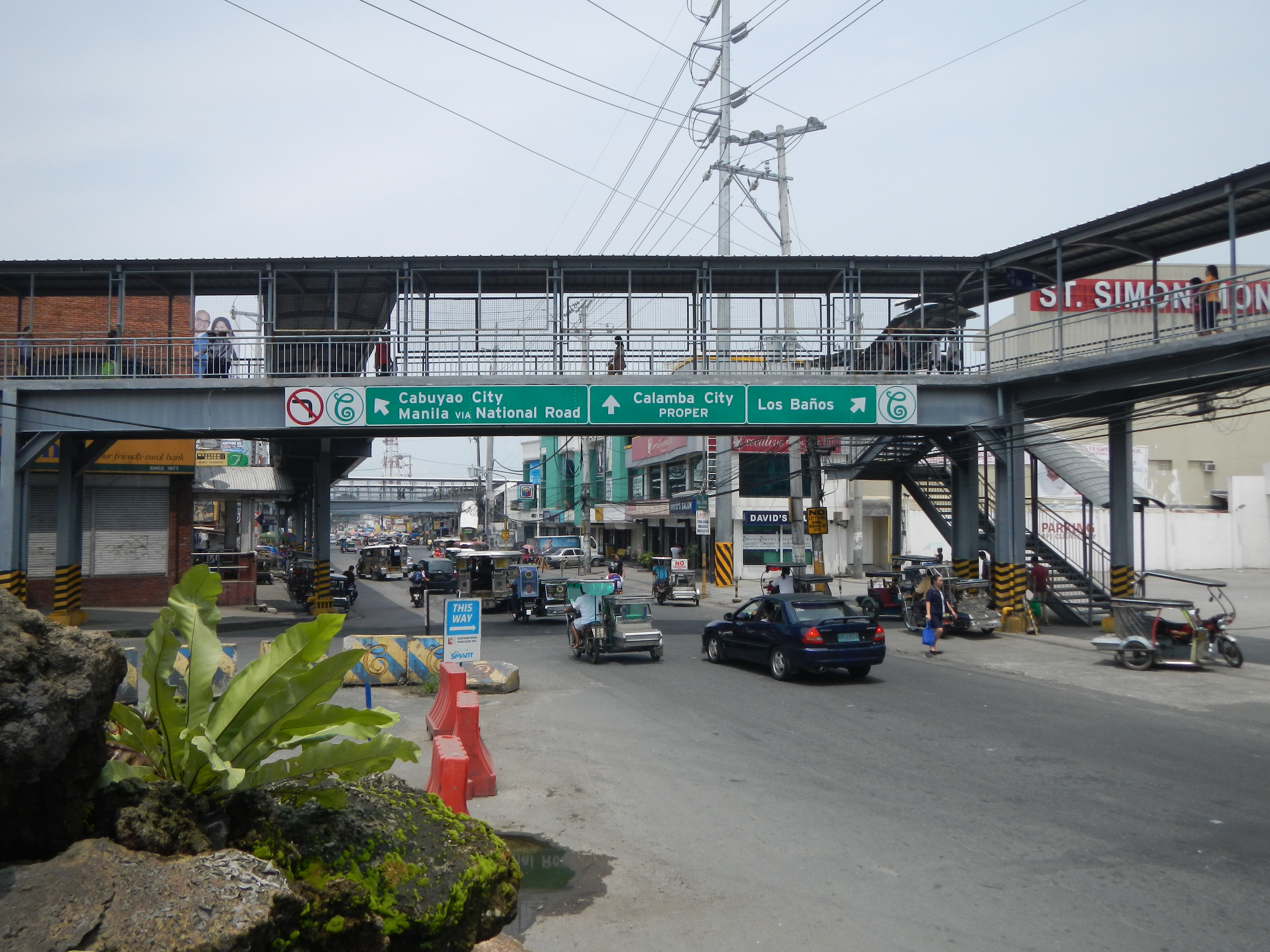 UploadWizard photos --- (general description) of (landmarks, heritage, culture, comprehensive, photography) of – a) the "Lady with the Kalan-Banga" statue, in Calamba, Laguna [1] Centro, Junction beside SM City Calamba, and the Welcome arch of Magdalena, Laguna[2] located along Boundary Barangays of Magdalena and Pagsanjan, Laguna.[3]